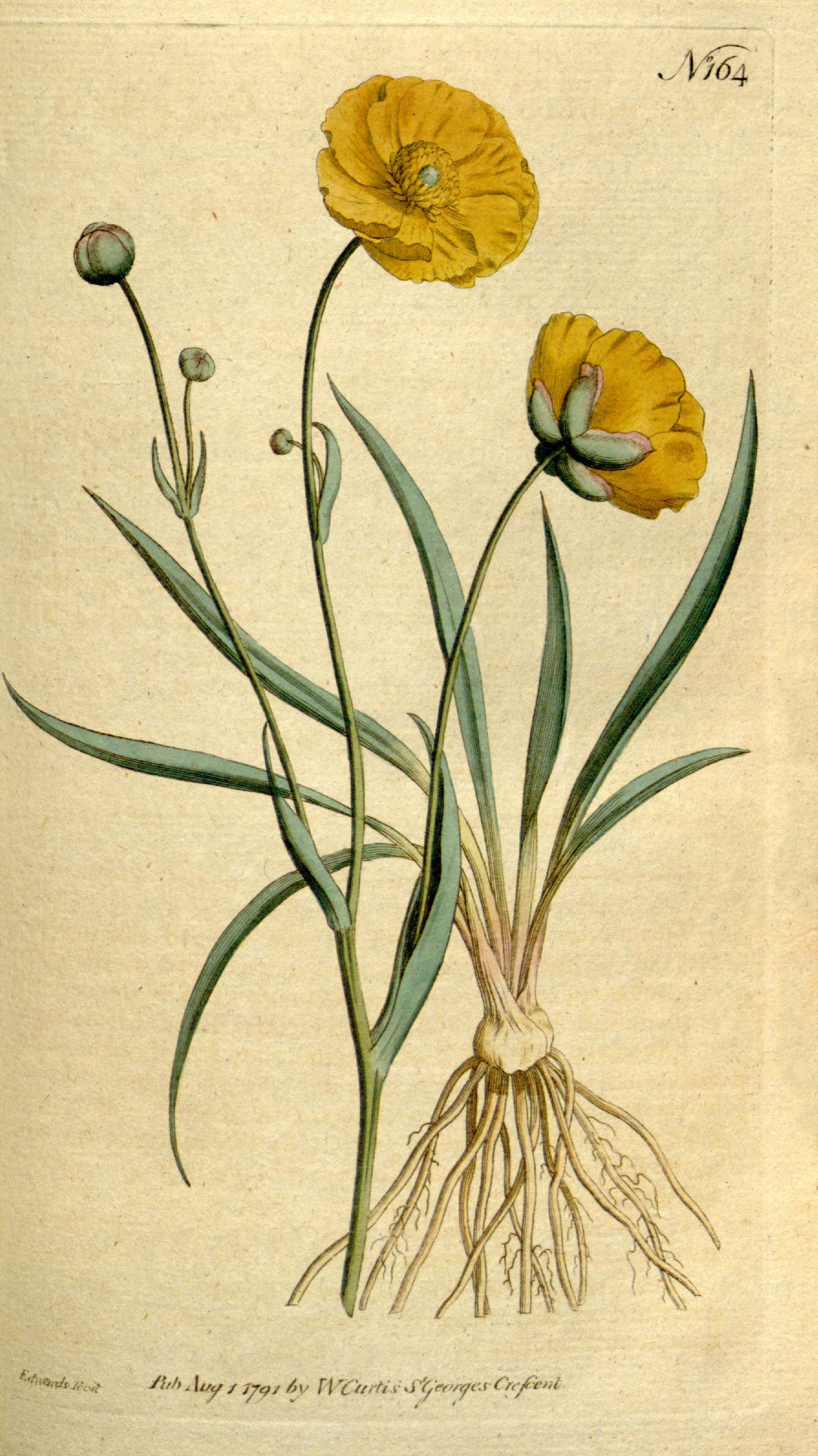 This is a plate from The Botanical Magazine, Volume 5.